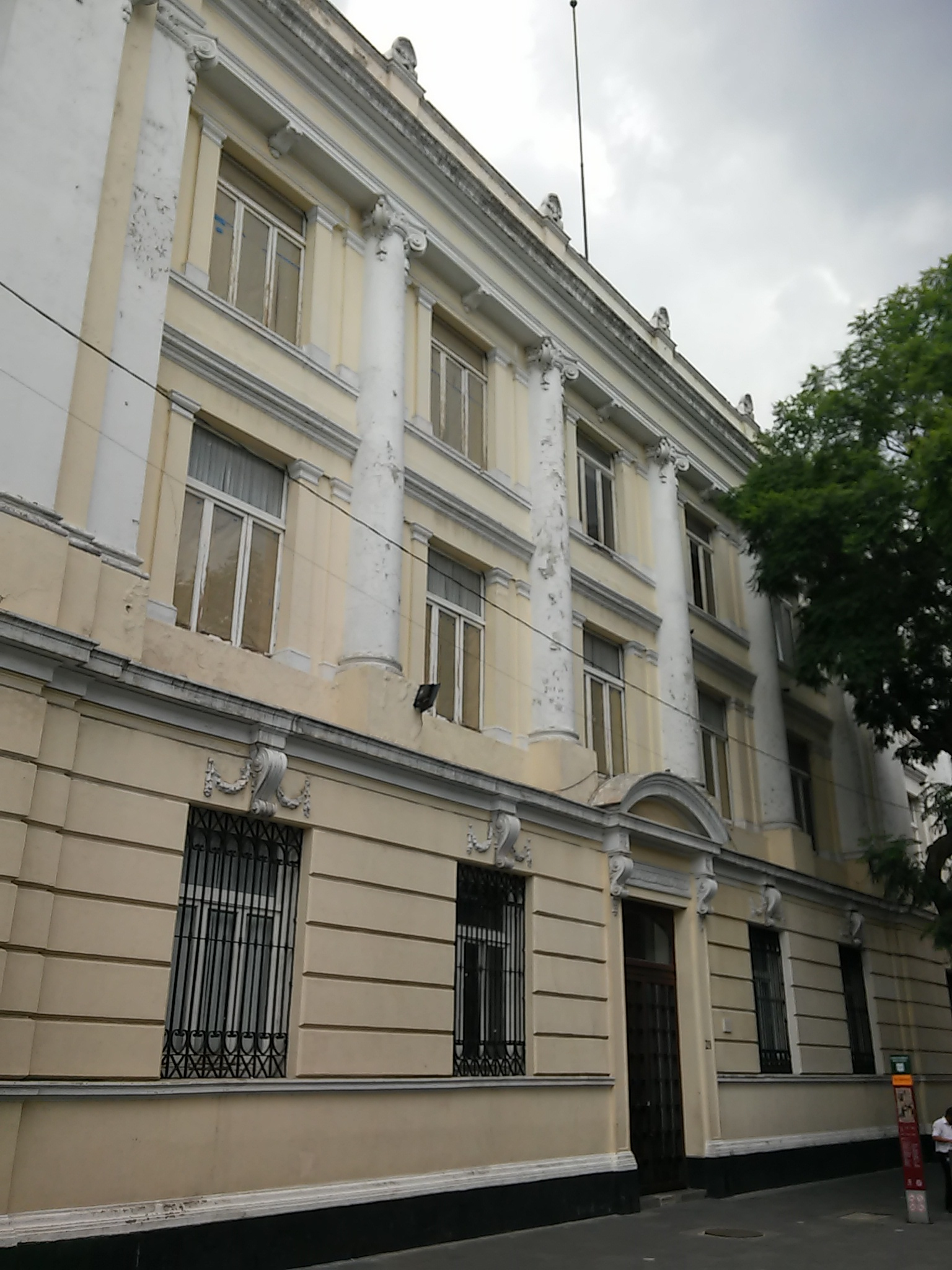 Antigua escuela de Jurisprudencia en la esquina de las calles San Ildefonso y República de Argentina en el centro histórico de la Ciudad de México